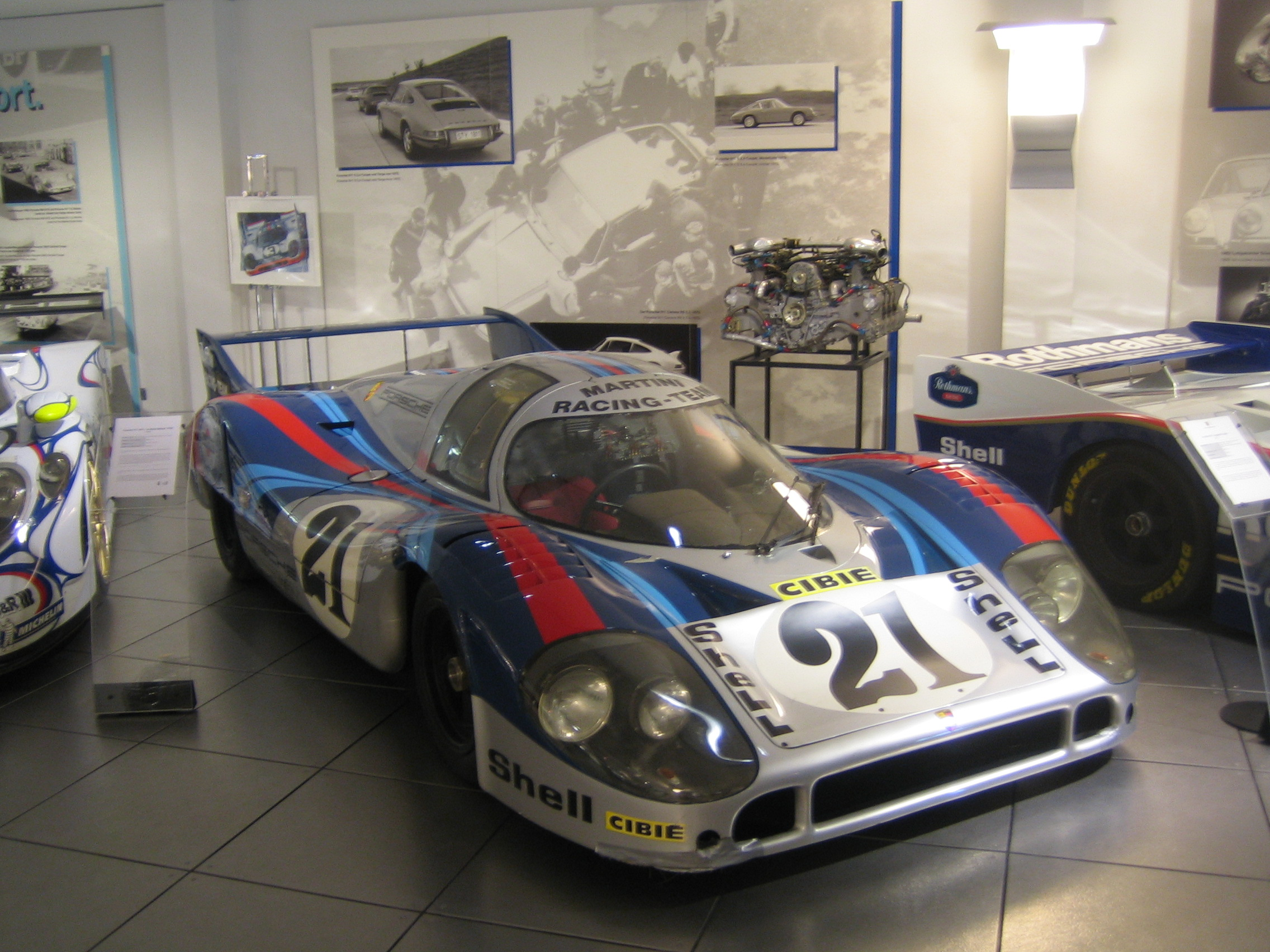 Porsche Museum Native namePorsche-MuseumLocationStuttgartCoordinates48° 50′ 07″ N, 9° 09′ 06″ E Established1976 (old museum) 2009 (new museum)Web page control : Q328623 VIAF: 138511768 GND: 2087859-X SUDOC: 155641123 NKC: ko2015876799 institution QS:P195,Q328623 1971 Porsche 917-4.9 LH Coupé.jpgGermany-0064